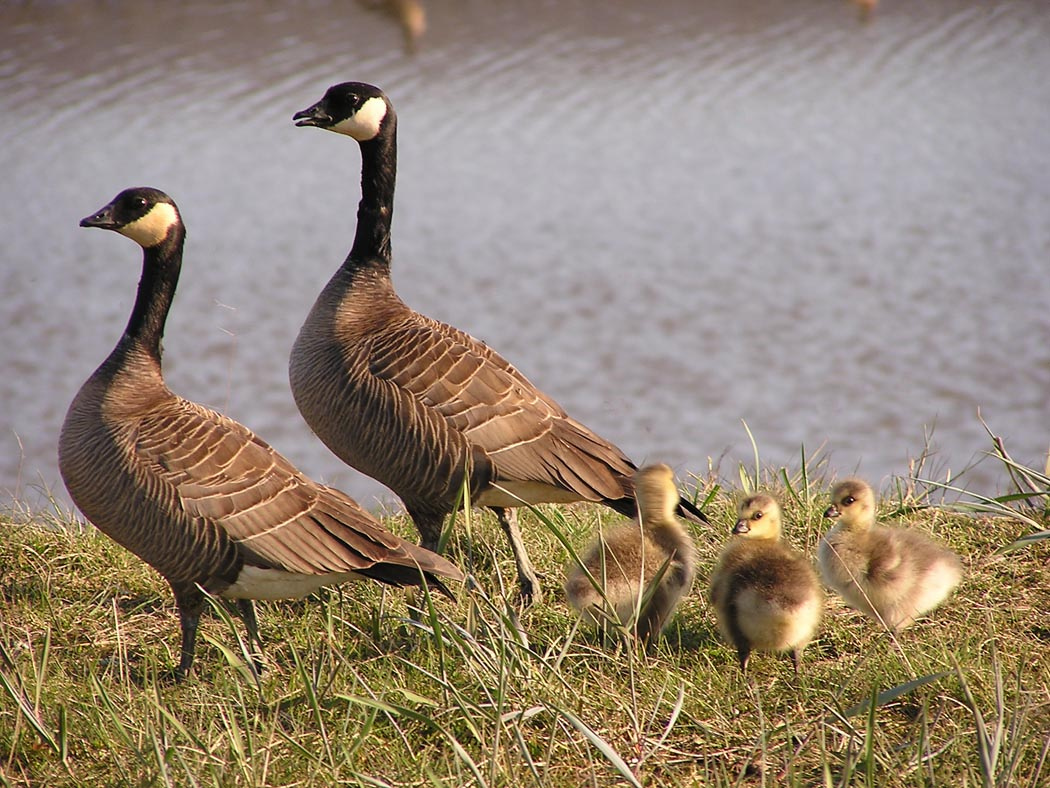 Small Cackling Goose (Branta hutchinsii minima) brood